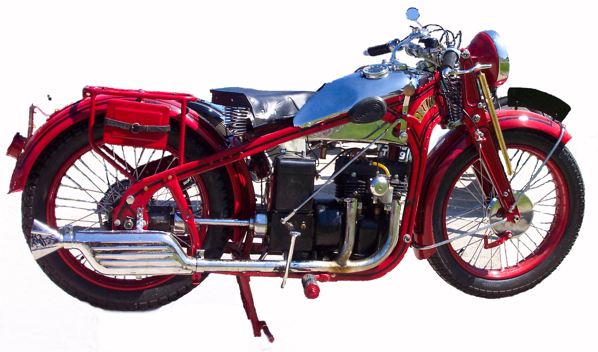 500 Dresch side valves